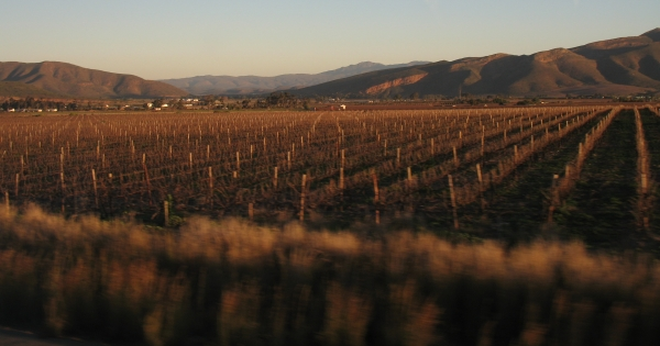 Vineyard on the Garden Route in July.